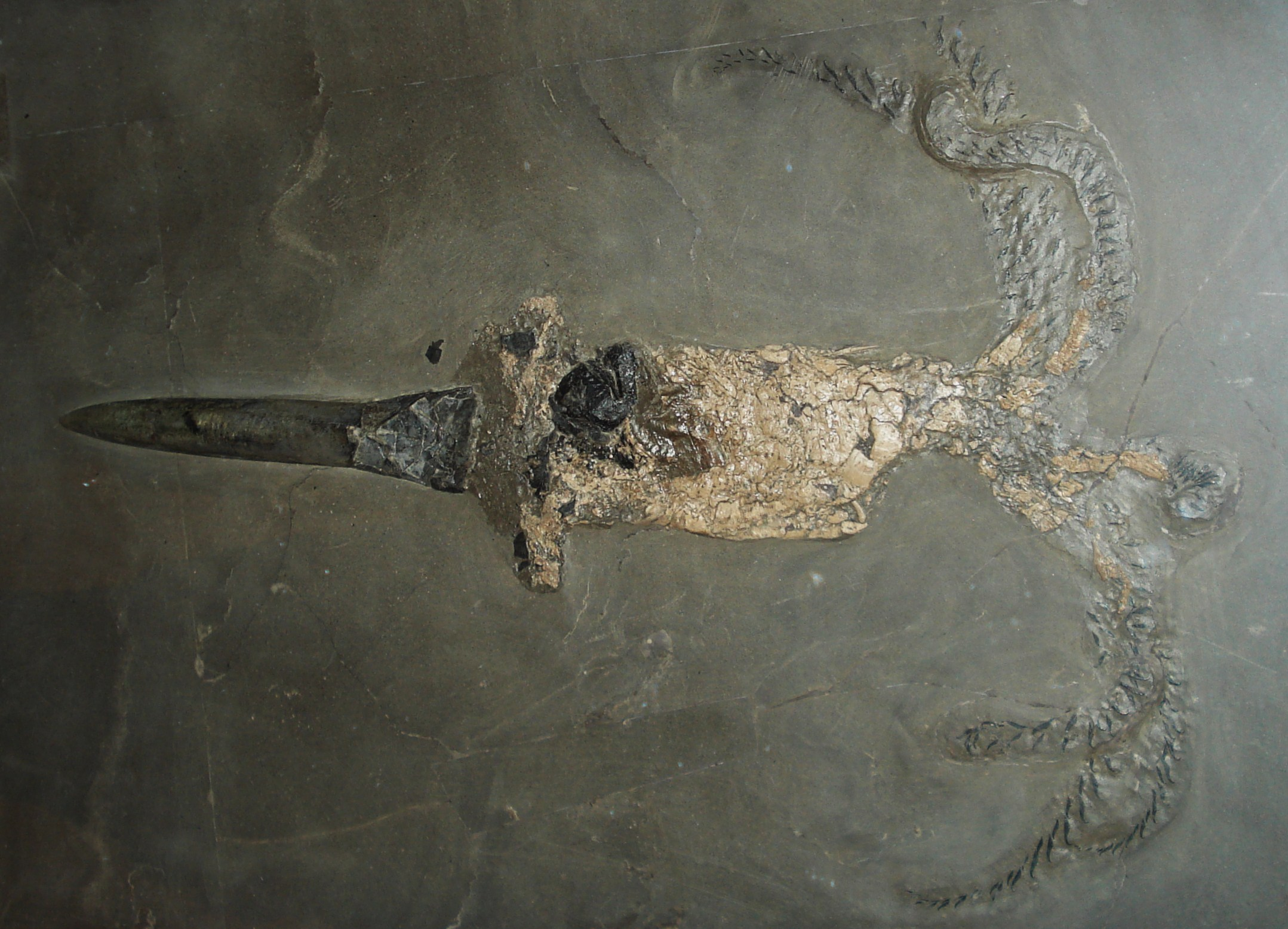 fossil of Passaloteuthis bisulcata